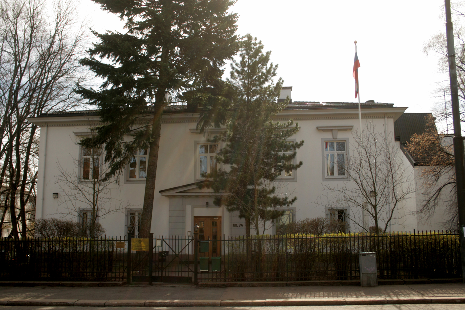 Russian embassy in Oslo, Norway - front building. Address: Drammensveien 74. Architect Oscar Hoff. Built 1926 for the German legation. Later Soviet embassy.